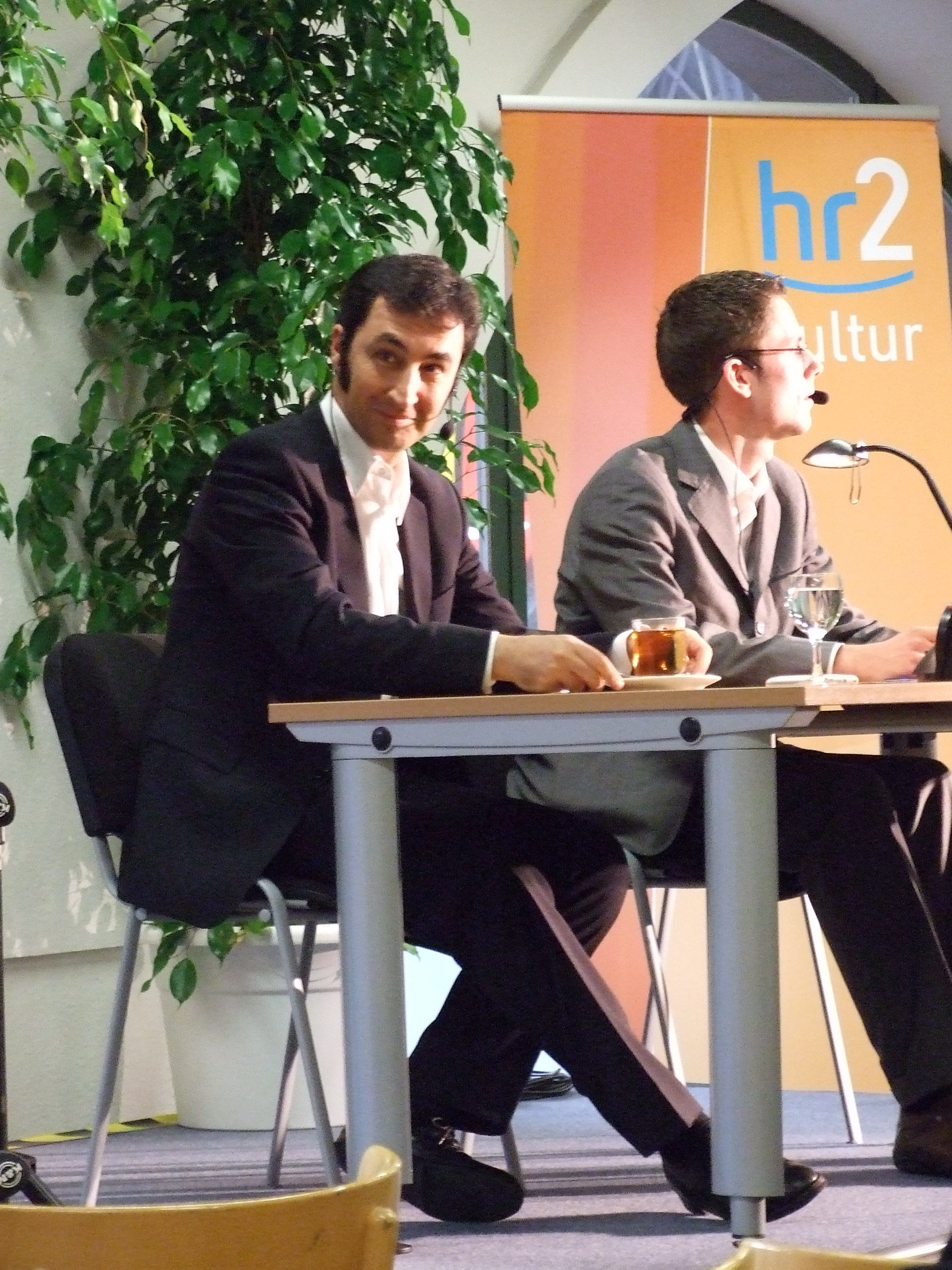 Cem Özdemir, during presentation of his new book Die Türkei (Turkey), at Frankfurt am Main